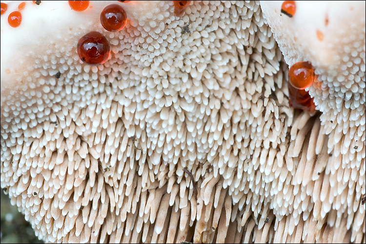 Hydnellum ferrugineum ((Fr.) P. Karst.) Location: Zadnja Trenta valley, East Julian Alps, Posocje, Slovenia EC Notes: Lat.: 46.39941 Long.: 13.7013Code: Bot_387/2009-5467Habitat: Mixed wood, predominantly Fagus sylvatica and Picea abies, in shade, protected from direct rain by tree canopies, calcareous ground, average precipitations ~3.000 mm/year, average temperature 6-8 deg C, elevation 990 m (3.250 feet), alpine phytogeographical region.Substratum: Decomposing tree litter and soil among roots of an old Picea abiesPlace: West side of Zadnja Trenta valley, south of ex Fjori farm house, East Julian Alps, PosoÄ%uFFFDje, Slovenia ECNikon D70 / Nikkor Micro 105mm/f2.8